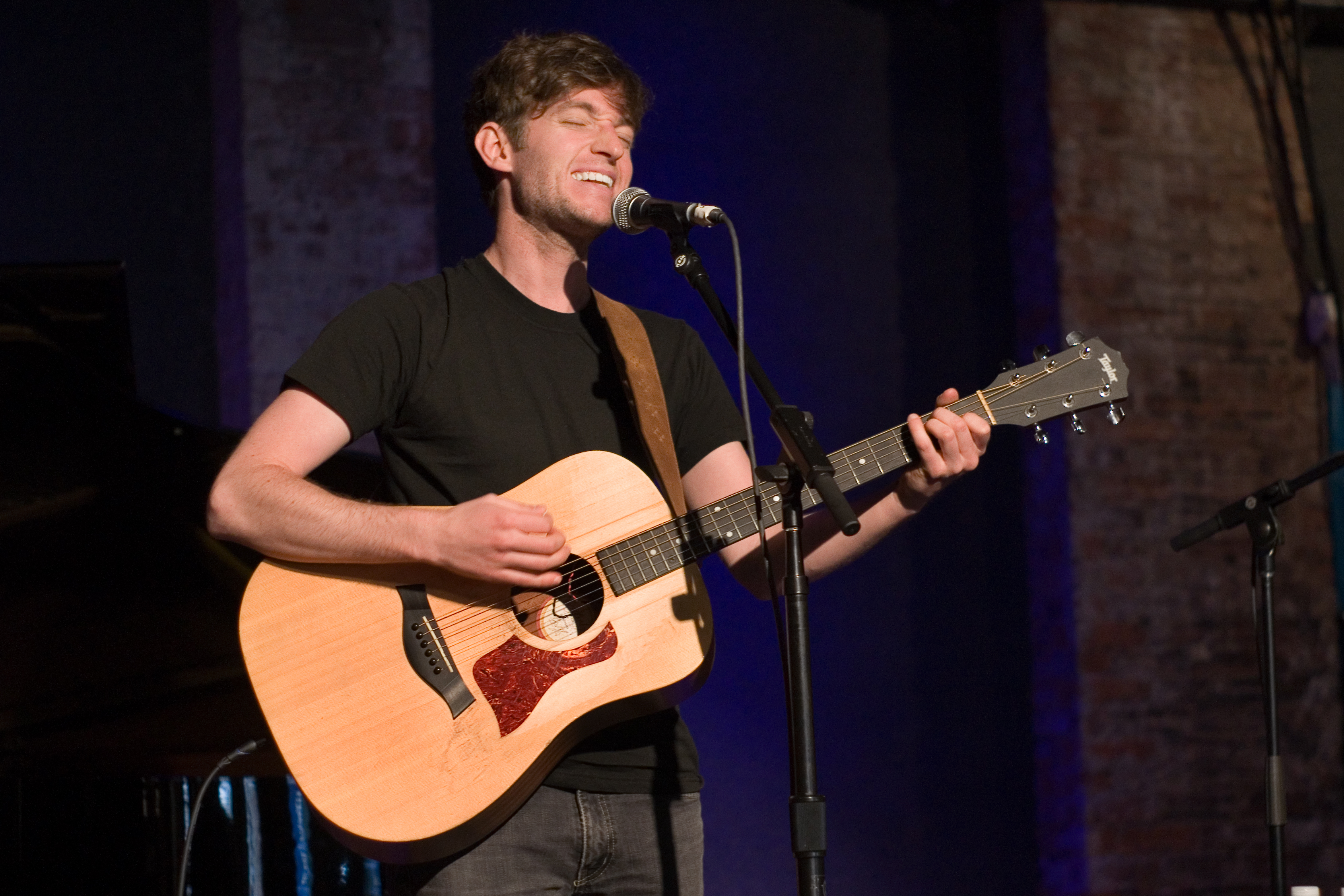 Musician Matt Duke performing at the City Winery in NYC during 2011-04-28. This picture was taken during soundcheck. Following the photo, Matt Duke sat down for an interview with me that can be read here: Evan Amos interviews Matt Duke